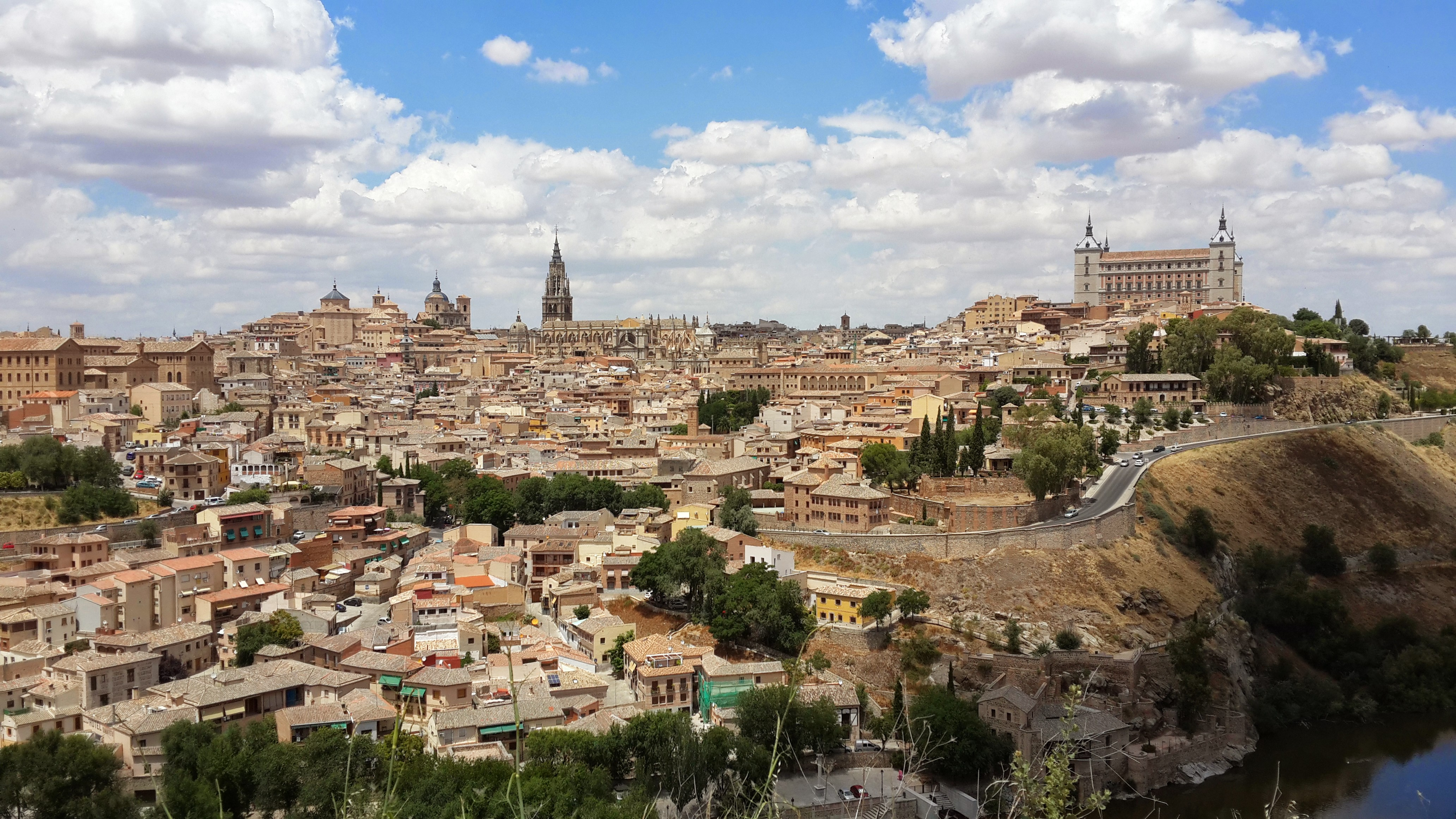 A view of Toledo, Spain